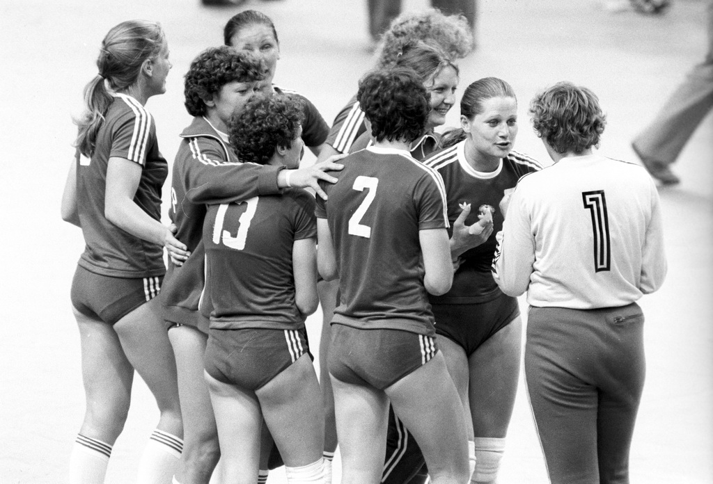 “Handball match between the USSR and Germany national handball teams”. Handball match between the USSR and Germany national handball teams. XXII Olympic Summer Games (July 19-August 3).